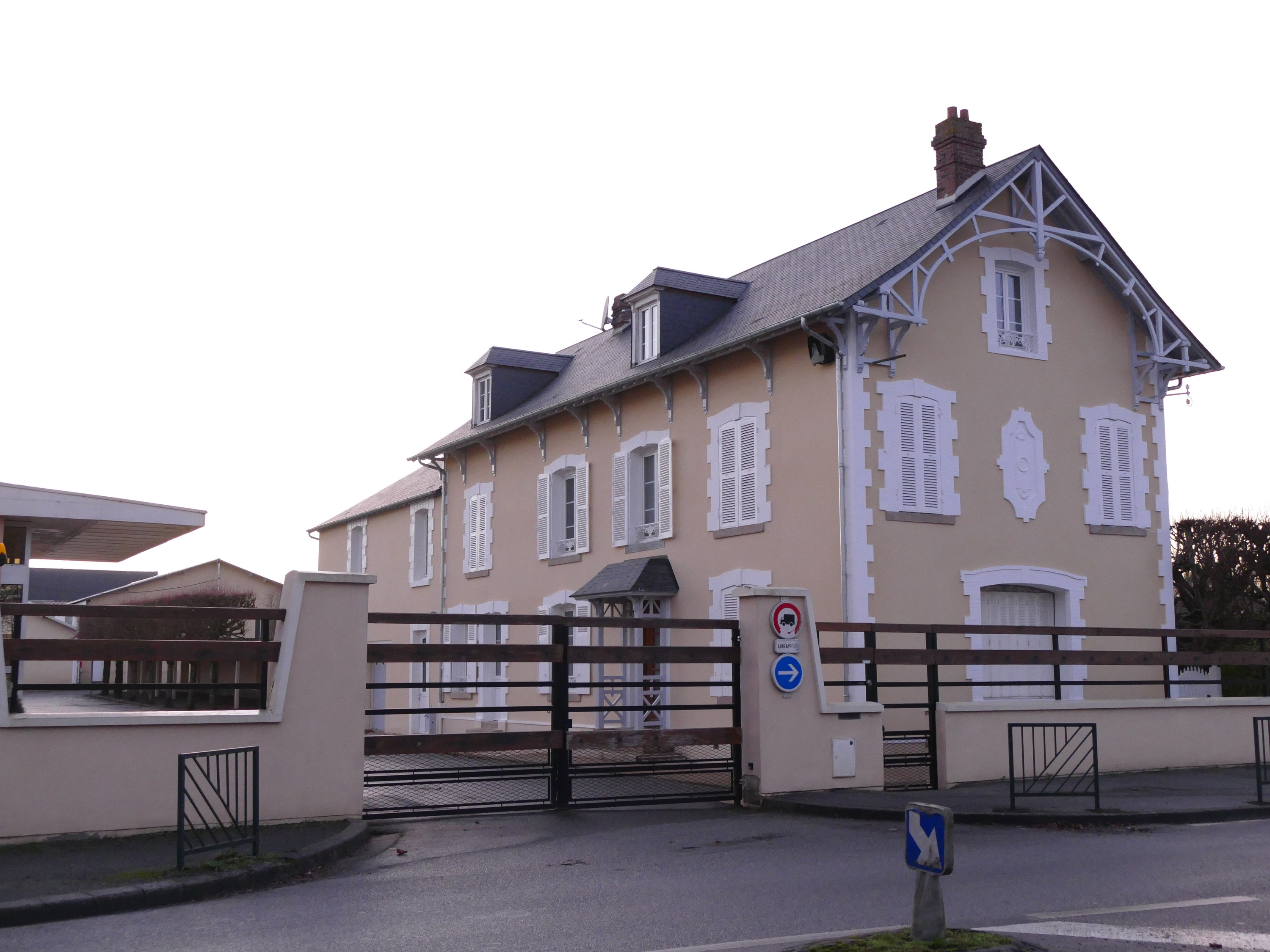 Prout sawmill in Alençon (Orne, Normandie, France).